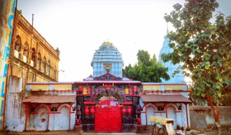 Maa Manikeswari Temple, Bhawanipatna